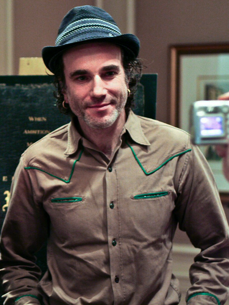 Actor Daniel Day-Lewis in New York on december 10, 2007.